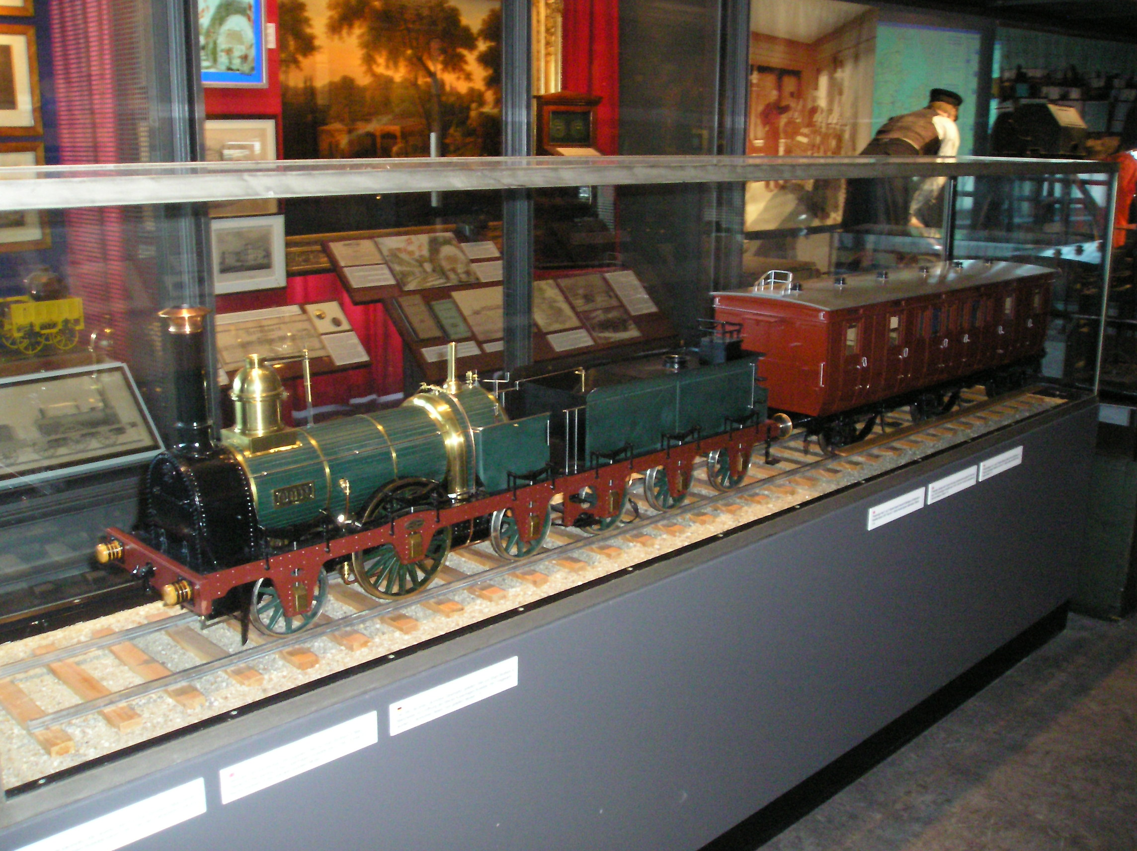 Model of Odin, the first steam locomotive in Denmark, in Danmarks Jernbanemuseum.